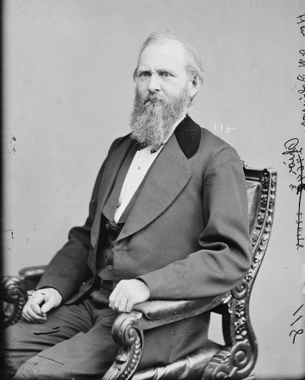 James Wallace Robinson from Brady Handy Collection.